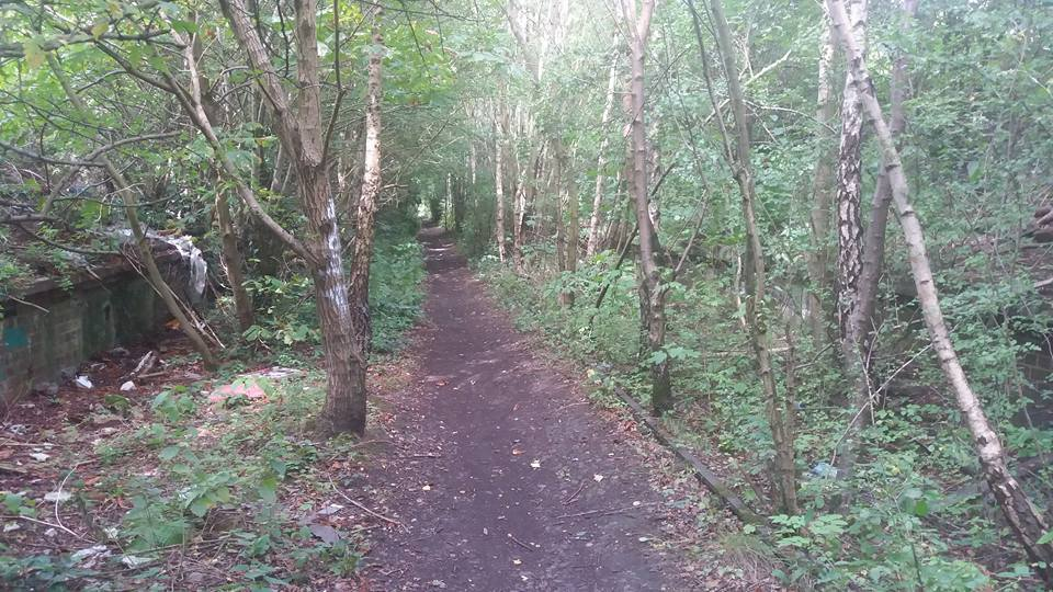 My own.